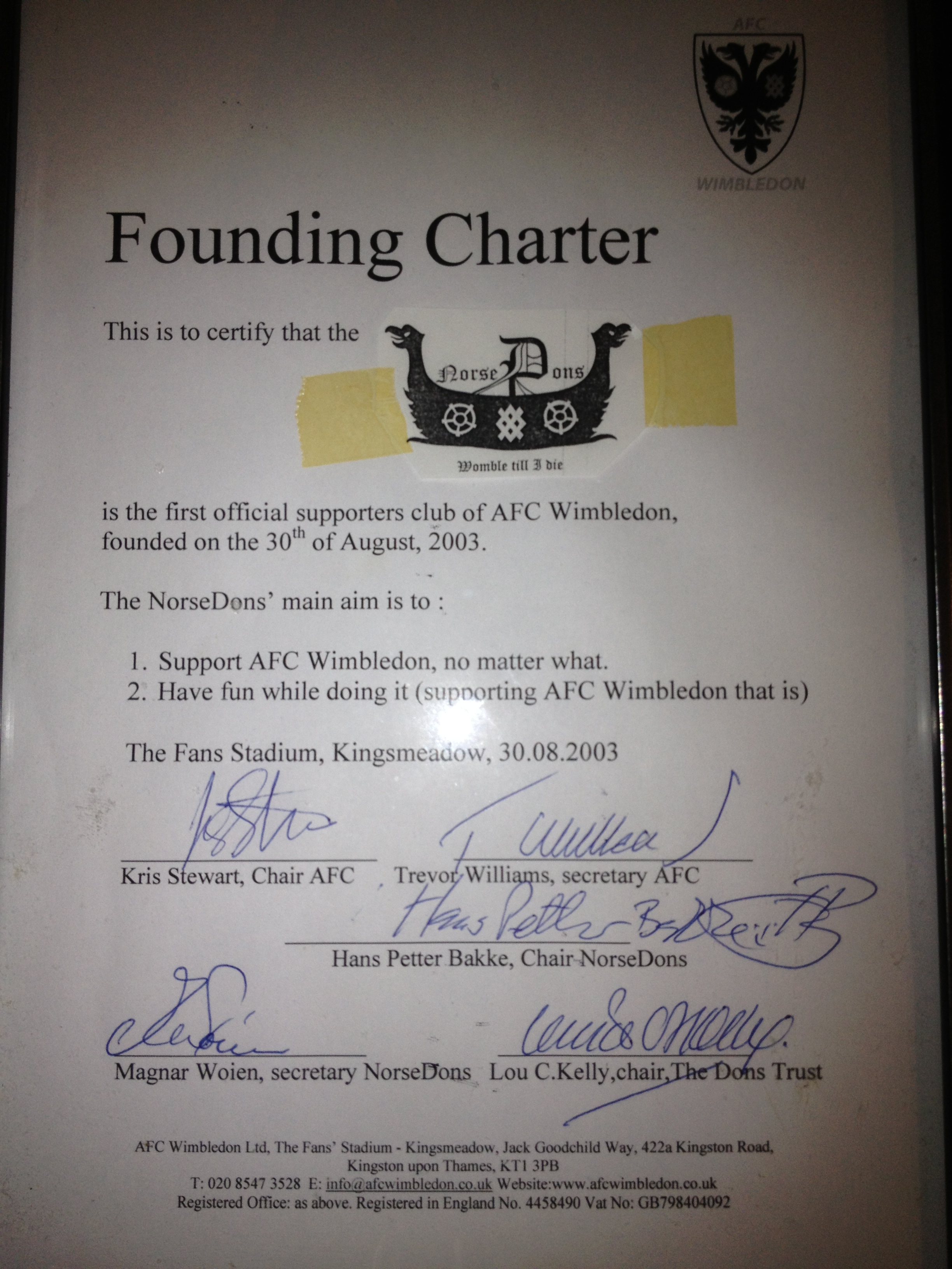 The founding charter of Norsedons, signed by AFC Wimbledon officials, stating that Norsedons was the first official supporters club of AFC Wimbledon